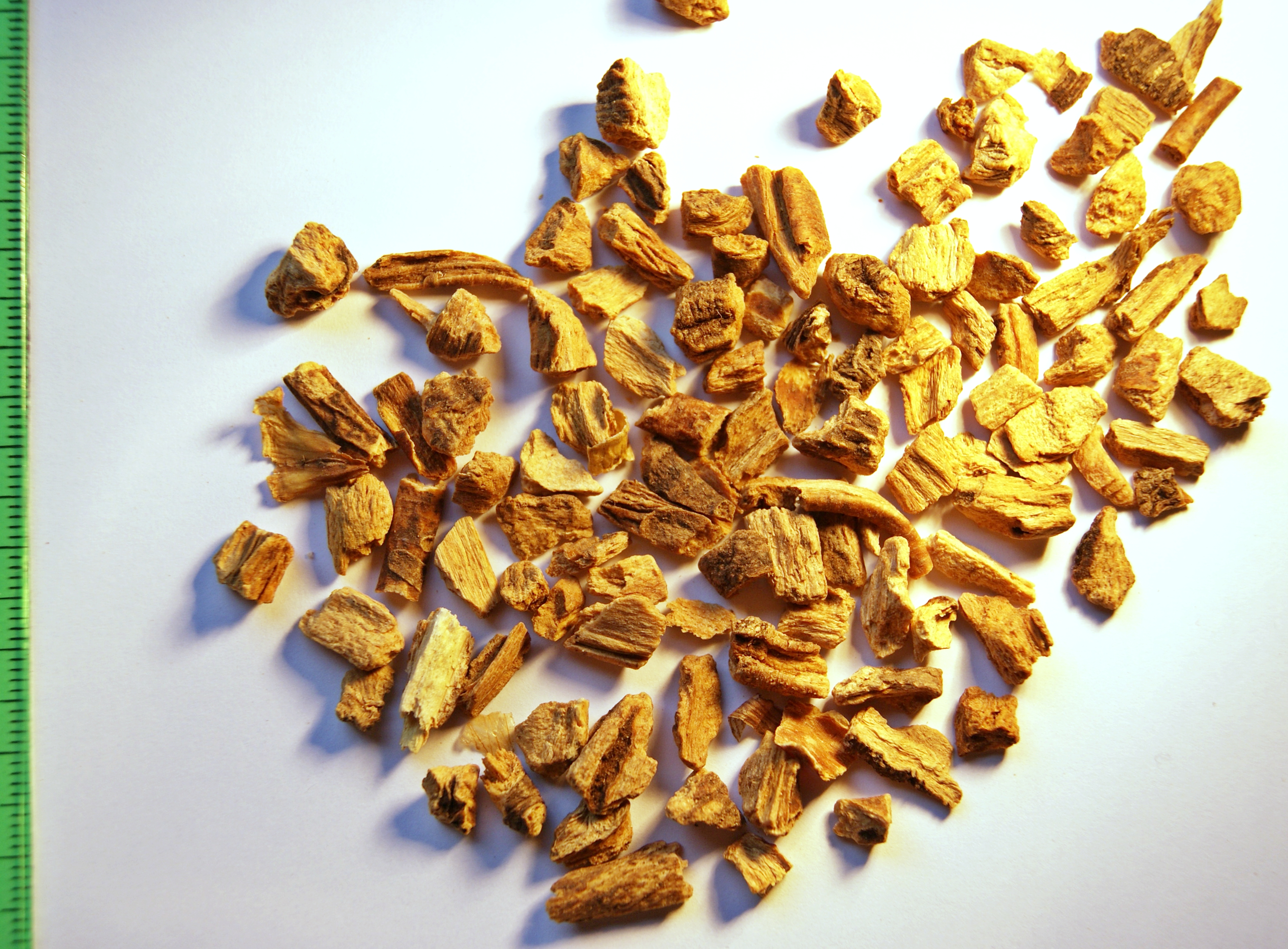 Gentiana lutea